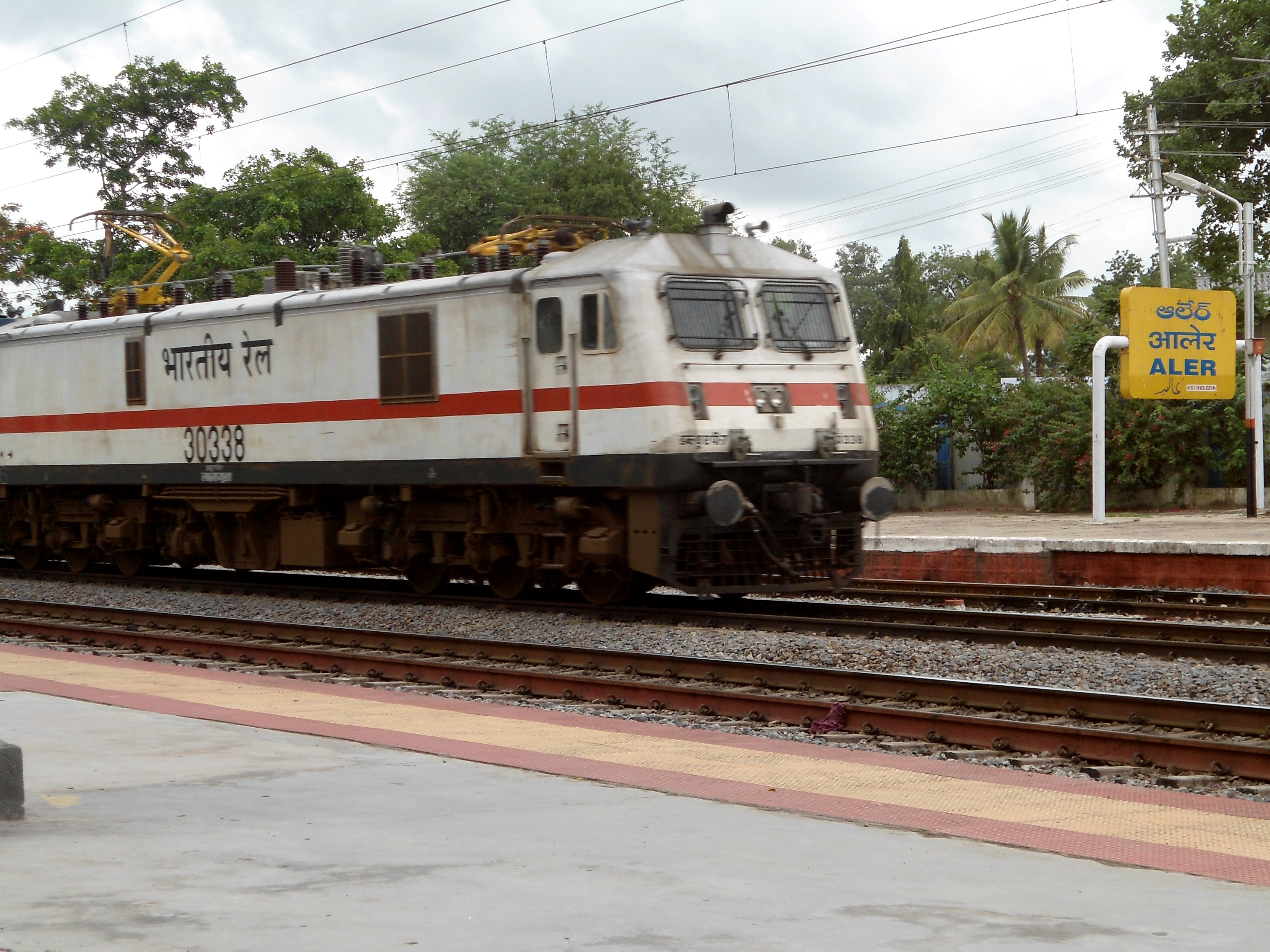 Delhi bound AP Superfast Express crossing Aler Railway Station with a WAP-7 loco 30338